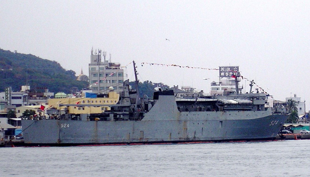 ROCN Yuenfeng AP-524 (雲峰), Taken in Kaohsiung Harbor, Taiwan.